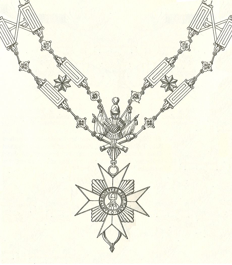 Collarof the Order of Saint Sylvester as it was before the reorganisation of 1905 Collage